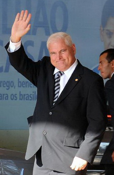 The Elected President of Panama, Ricardo Martinelli, before meeting with President Lula